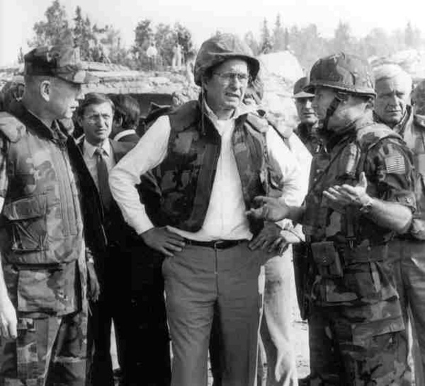 "Marine Gen. P.X. Kelley (left) and Col. Tim Geraghty (right) take then-Vice President George H.W. Bush on a tour around the site of the Beirut barracks bombing two days after the Oct. 23, 1983, explosion killed 241 servicemembers, mostly Marines, at the Beirut International Airport."